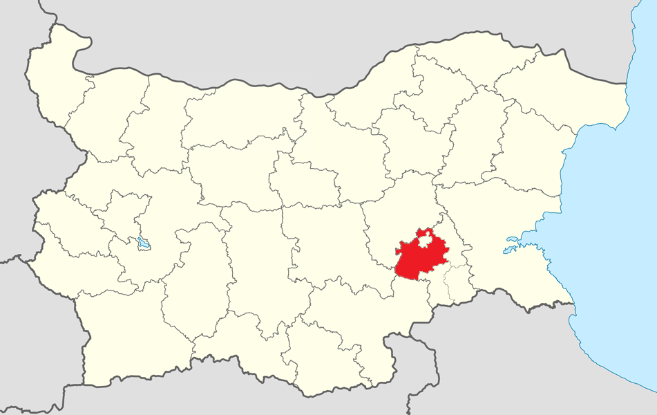 Location map of Tundzha Municipality within Bulgaria and Yambol Province